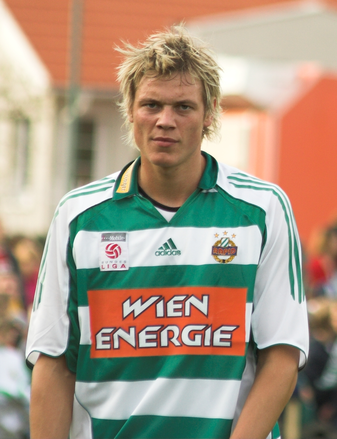 Roman Kienast, an austian football player